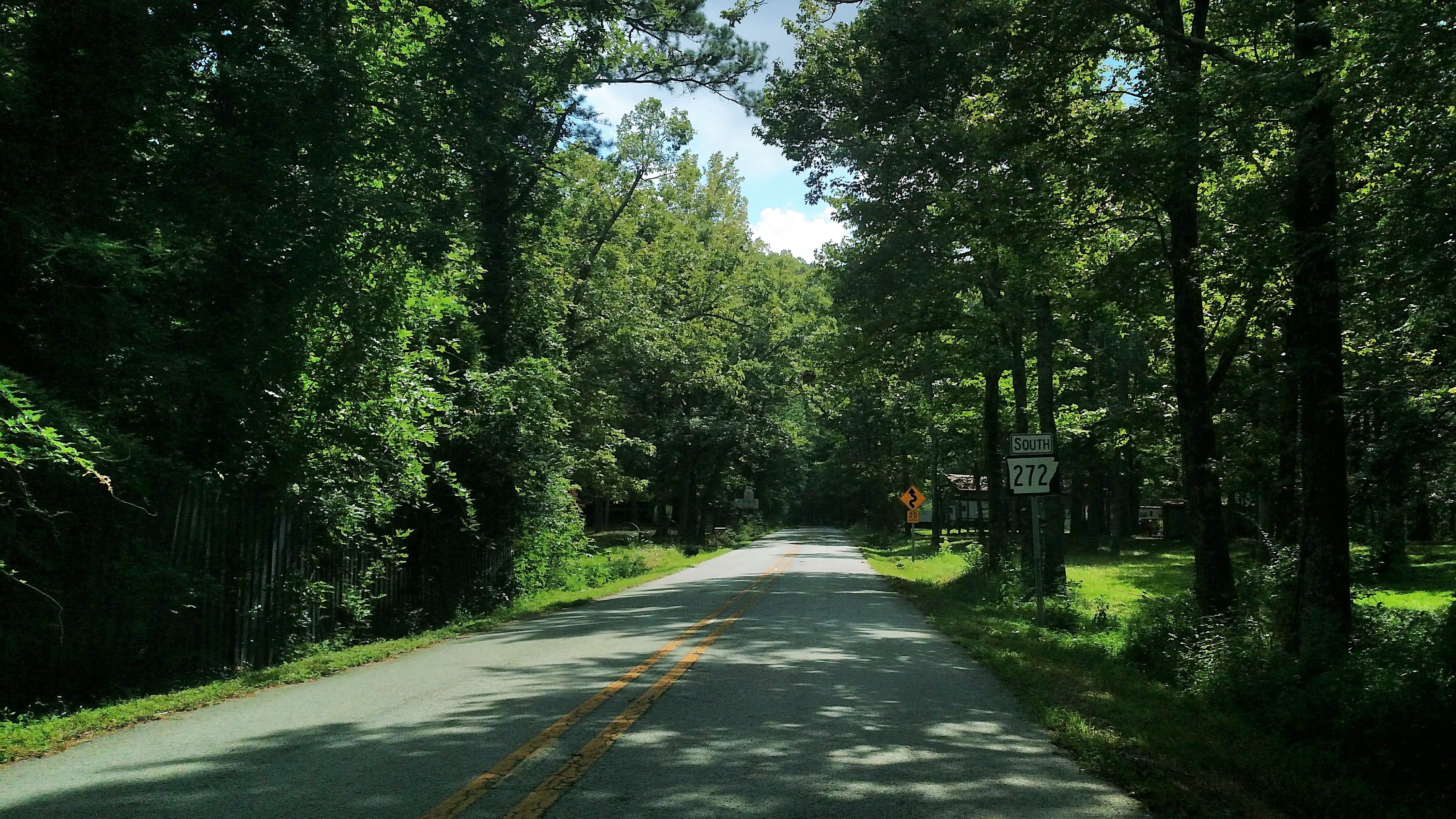 First reassurance marker south of the northern terminus of Arkansas Highway 272